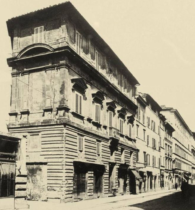 The Palazzo Iacopo da Brescia and the Borgo Nuovo road in Rome, 1930 ca.